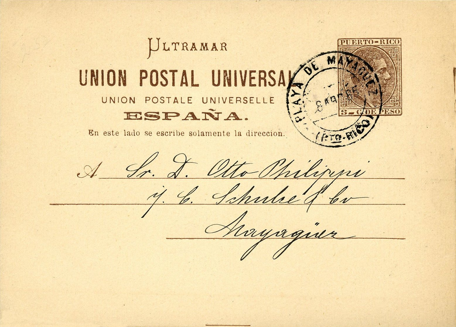 Puerto Rico postal card with cancellation date of 1885.